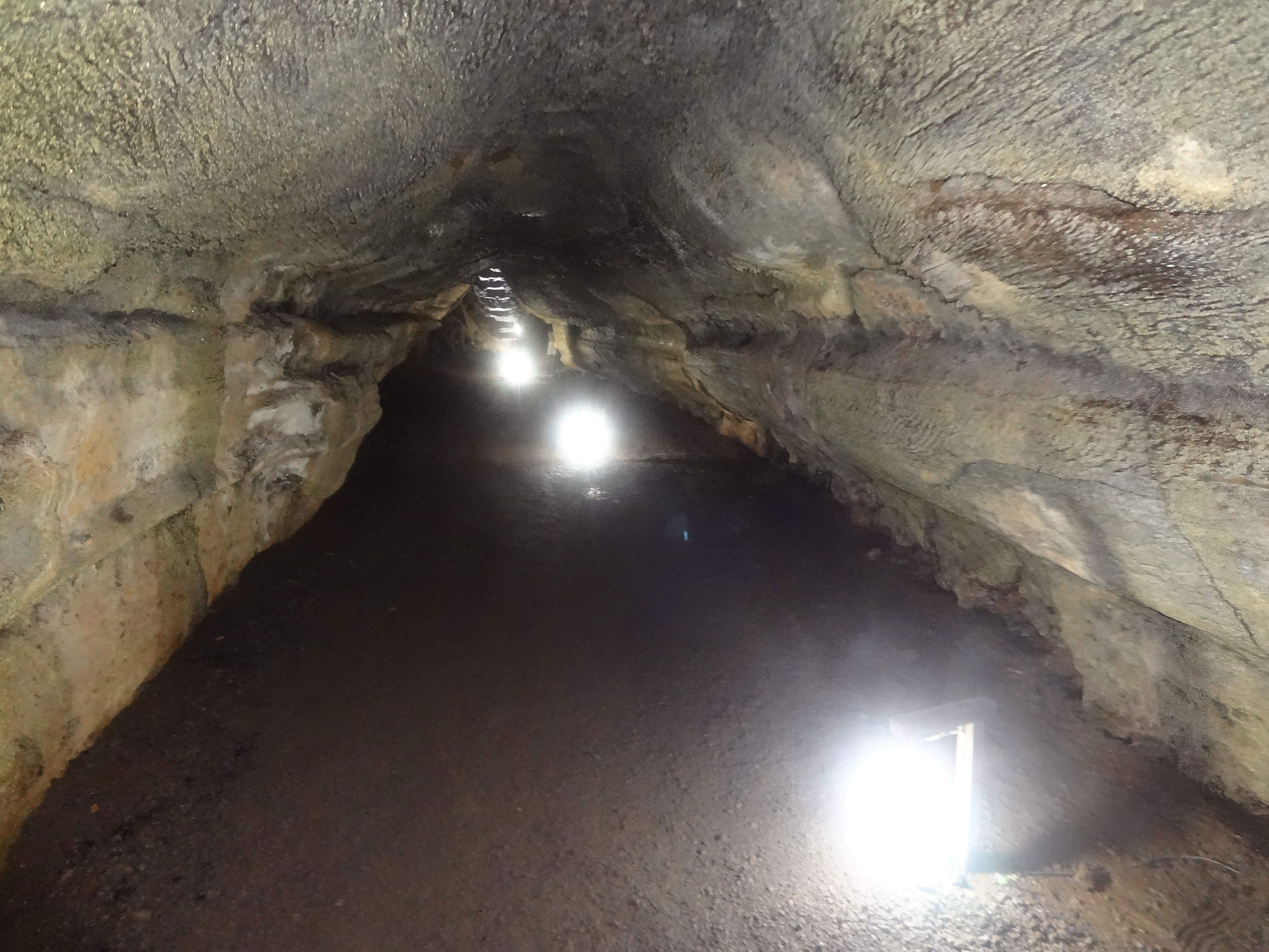 (lava tunnel) El Chato Reserve, Santa Cruz Highlands, Galápagos), inside view